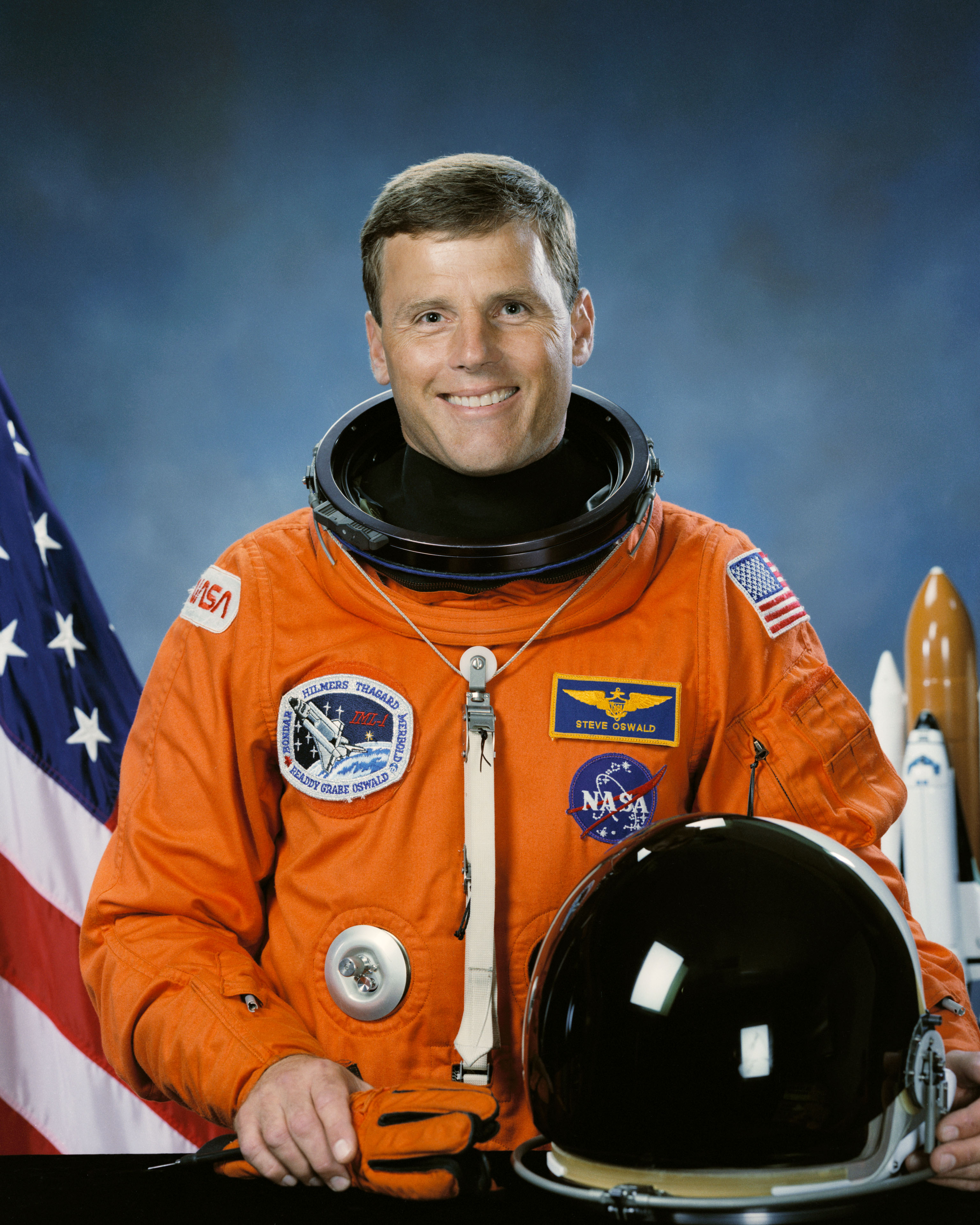 portrait astronaut Stephen Oswald